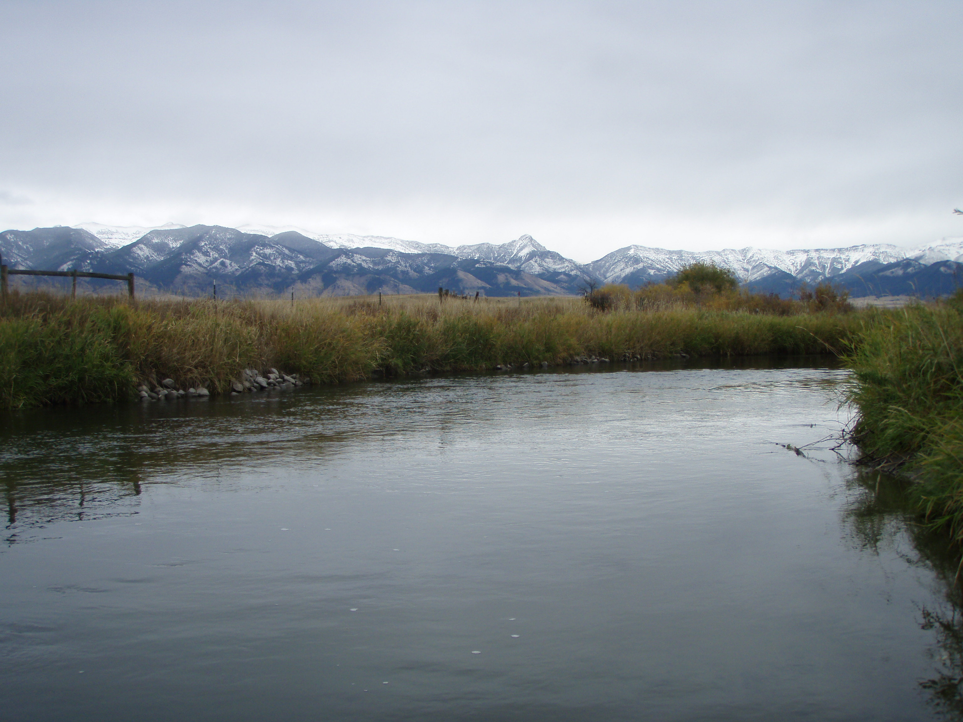 East Gallatin River Near Belgrade, Montana October 2007